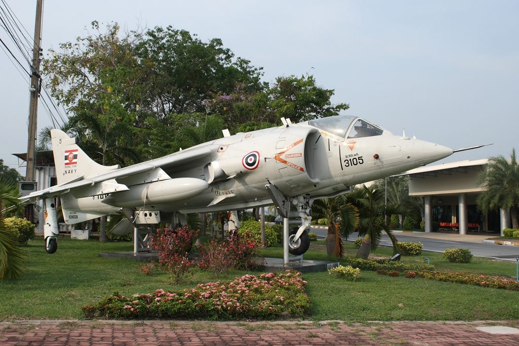 Civil terminal on the right.